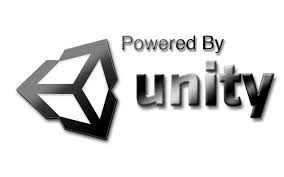 This the Unity's logo.